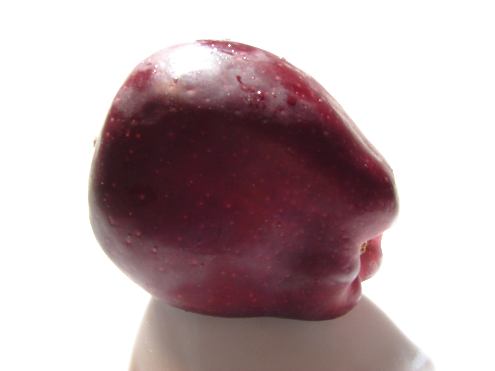 Red delicious apple